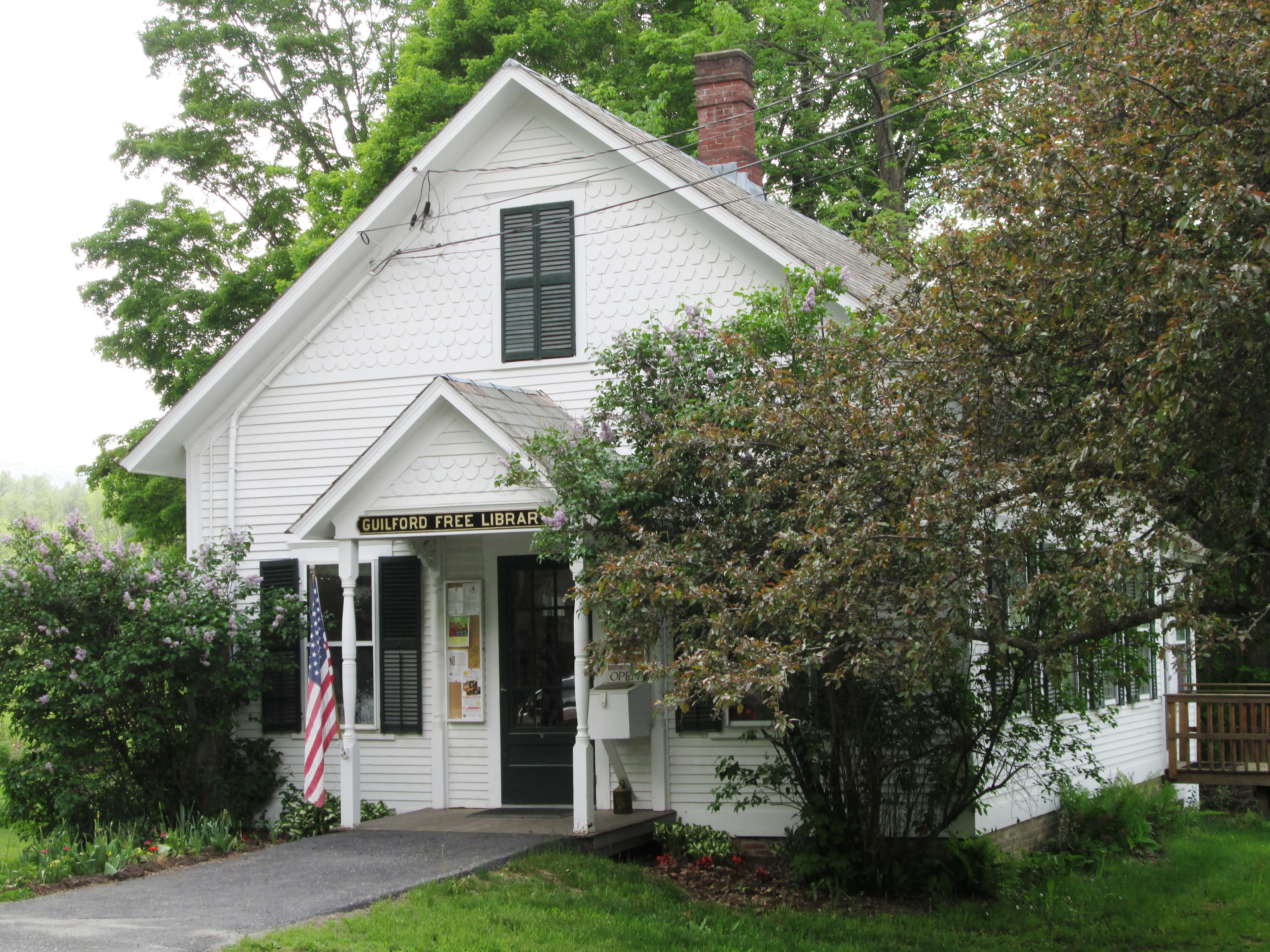 The Guilford Free Library at 4024 Guilford Center Road at Carpenter Hill Road in Guilford, Vermont, was founded in 1890 -- although there is evidence that the town had a library from 1790-1815 -- making it one of the oldest continuously operating public libraries in the state. The building was constructed in 1891 at the cost of $300, and the library opened its doors on July 2, 1892. (Source: library website)